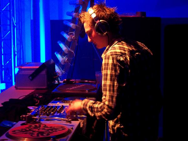 Carl B plays at nightclub in Poland.